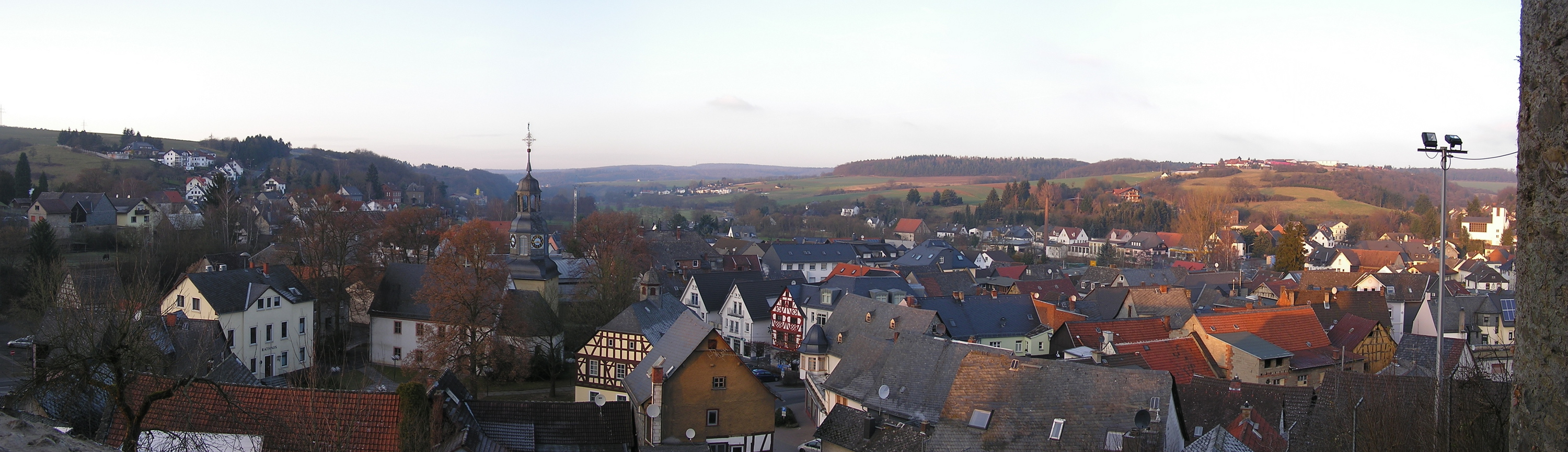 Panorama of the city Weilmünster